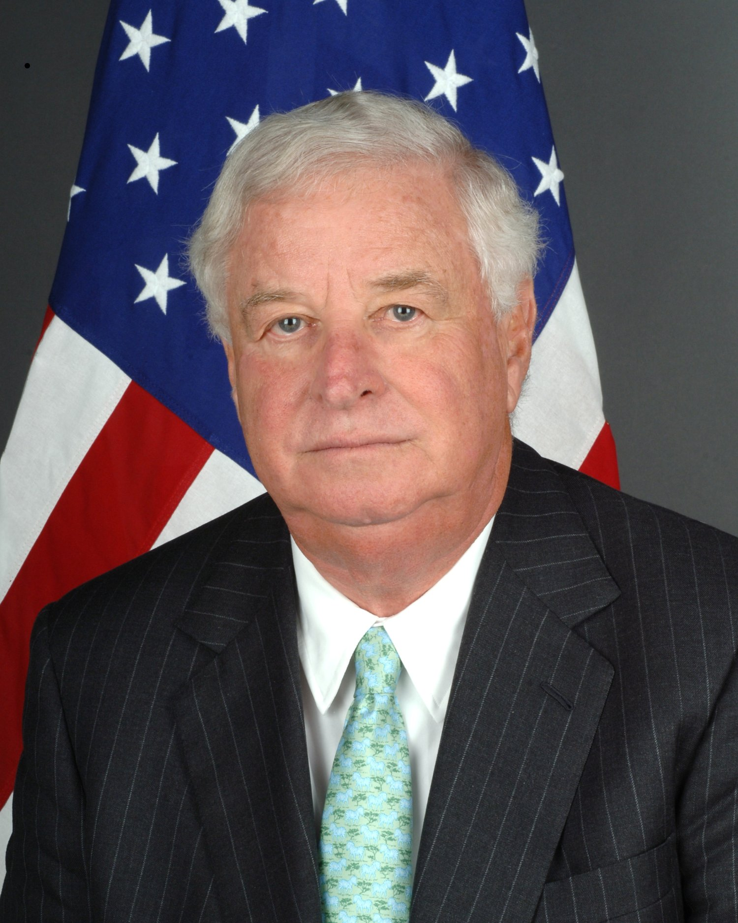 US Department of State portrait of Louis Susman, United States Ambassador to the United Kingdom.